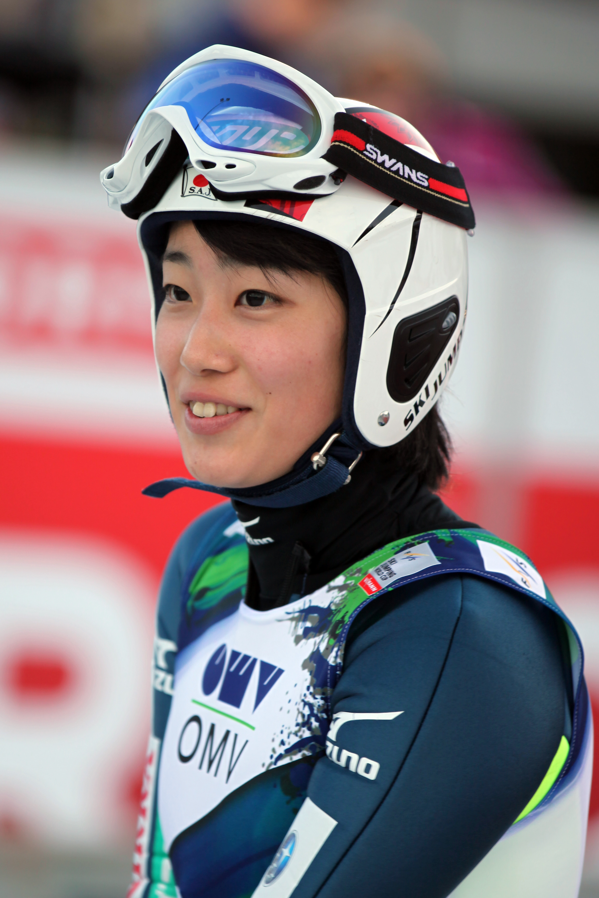 Kaori IWABUCHI ( 岩渕 香里) at the Ladies World Cup ski jumping event in Hinzenbach, Austria